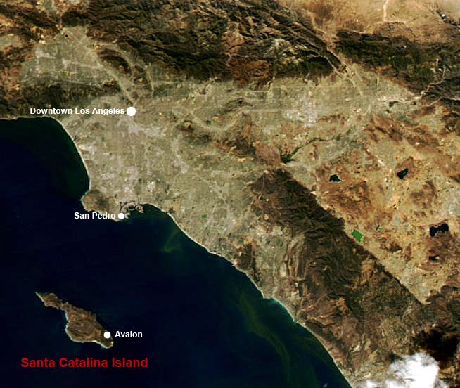 NASA image of Southern California with Santa Catalina Island identified